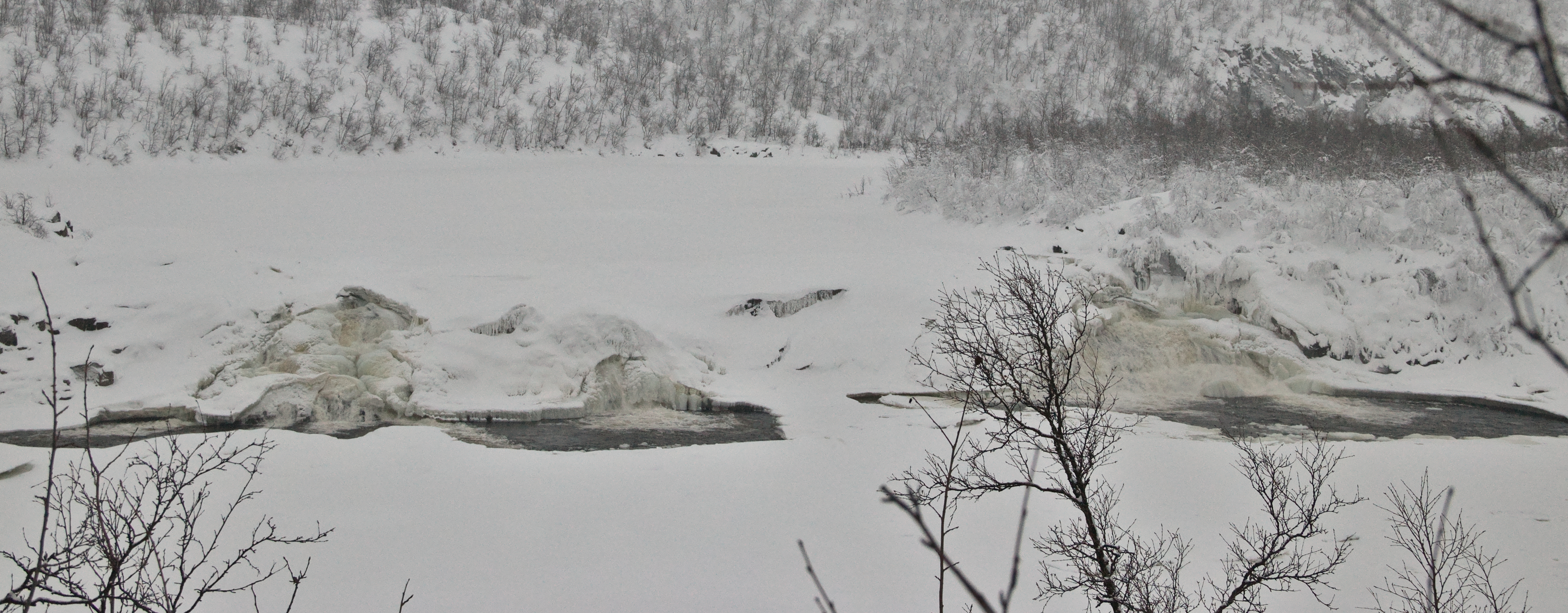 Pikefossen in winter